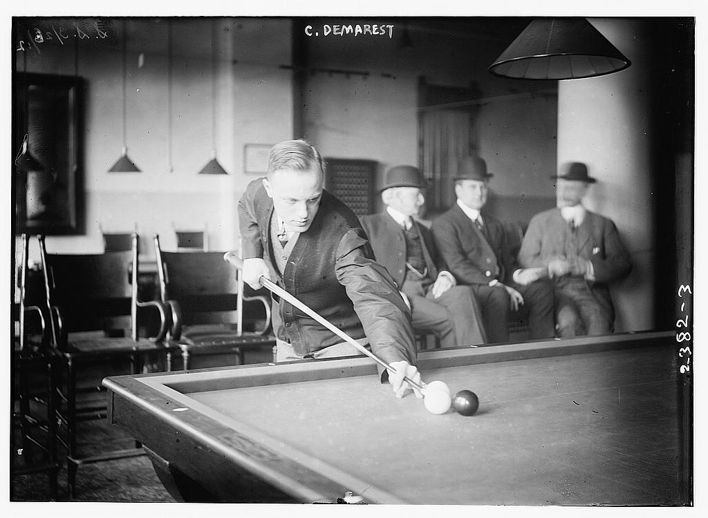 Bain News Service, publisher. Calvin Demarest on March 26, 1912 1912 March 26(?) 1 negative : glass ; 5 x 7 in. or smaller. Notes: Title and date from data provided by the Bain News Service on the negative. Photo shows Calvin A. Demarest, a national billiards champion. (Source: Flickr Commons project and New York Times, 2008) Forms part of: George Grantham Bain Collection (Library of Congress). Subjects: Billiards Format: Glass negatives. Repository: Library of Congress, Prints and Photographs Division, Washington, D.C. 20540 USA, General information about the Bain Collection is available at Persistent URL: Call Number: LC-B2- 2382-3